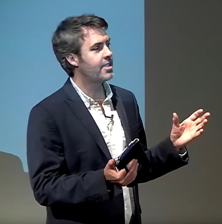 From the video description: "Professor Jem Bendell gave the opening keynote at the conference of the UK Council for Psychotherapy (UKCP). The event focused on the response of the psychotherapy profession to the growth of climate anxiety called 'Sleepwalking into the Anthropocene.' Jem gave a talk on 'Hope in the time of climate chaos,' where he invited therapists to engage with the climate predicament themselves and help communities to face a difficult future in ways that might reduce harm."